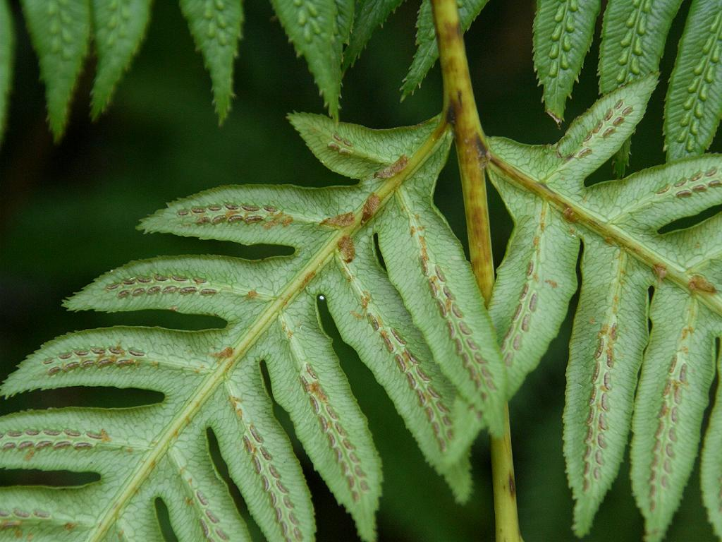 Woodwardia orientalis (コモチシダ)